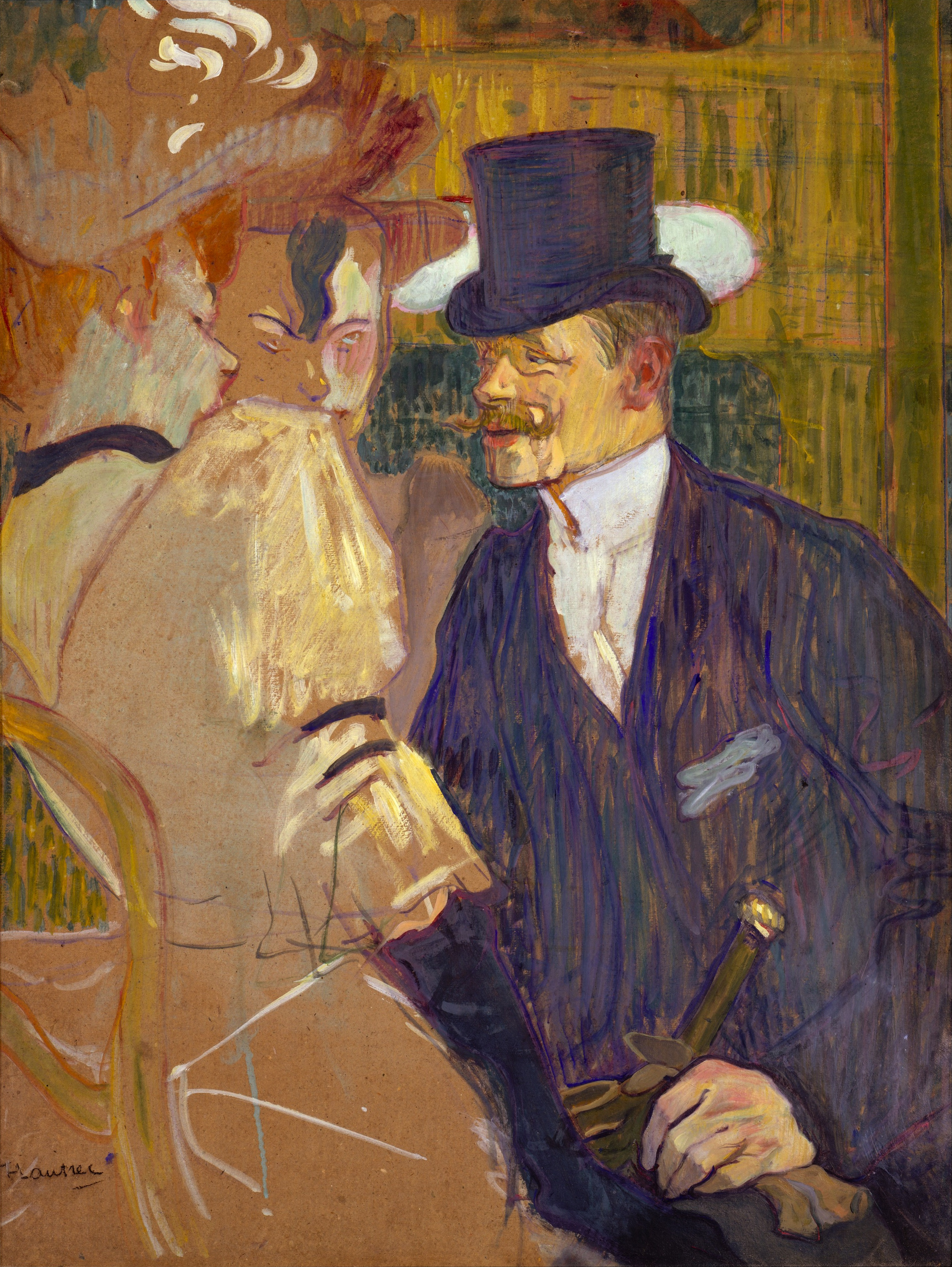 "The Englishman at the Moulin Rouge" is the preparatory study for a color lithograph of 1892. The influence of Degas and of Japanese prints can be seen in the odd perspective the artist selected, in the vibrancy of the color, and in the strong descriptive line. The model for the man was William Tom Warrener, an artist and a friend of Lautrec's.